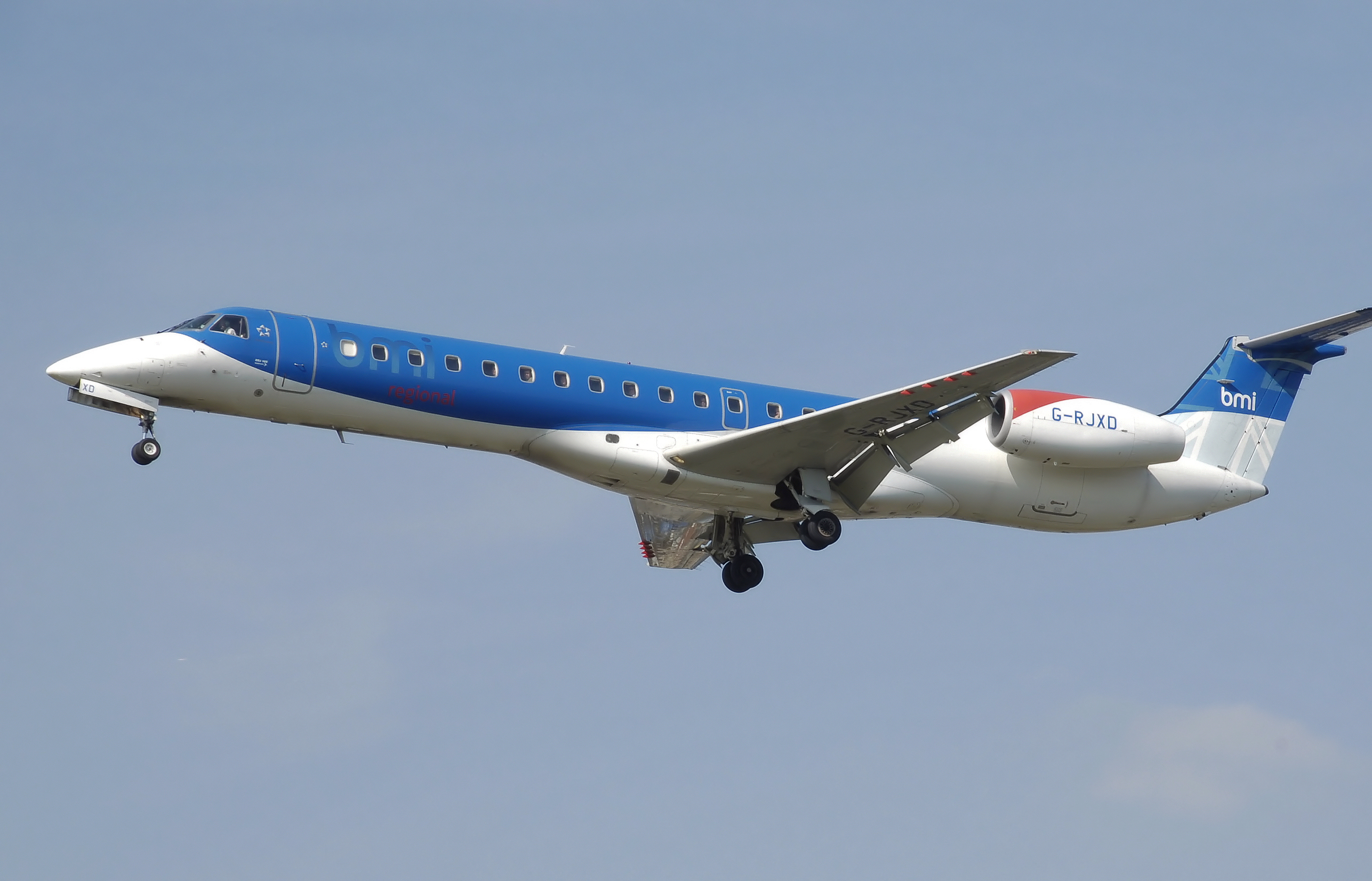 bmi Embraer ERJ 145 (G-RJXD) lands at London Heathrow Airport, England.